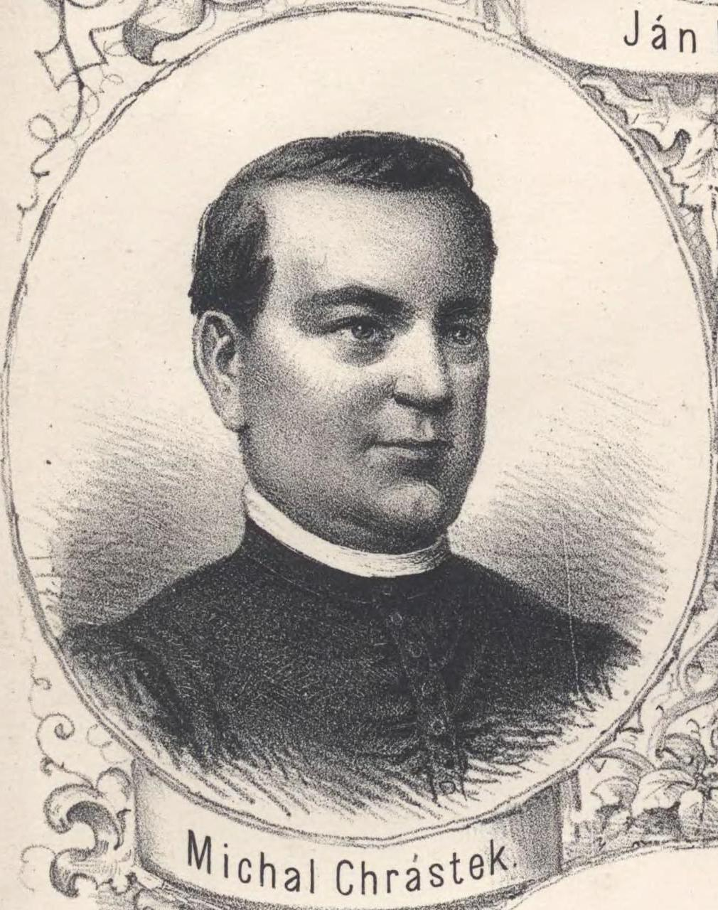 Portrait of Michal Chrástek (1825 - 1900), Slovak historian of literature. Picture cropped from a gallery of famous Slovaks.